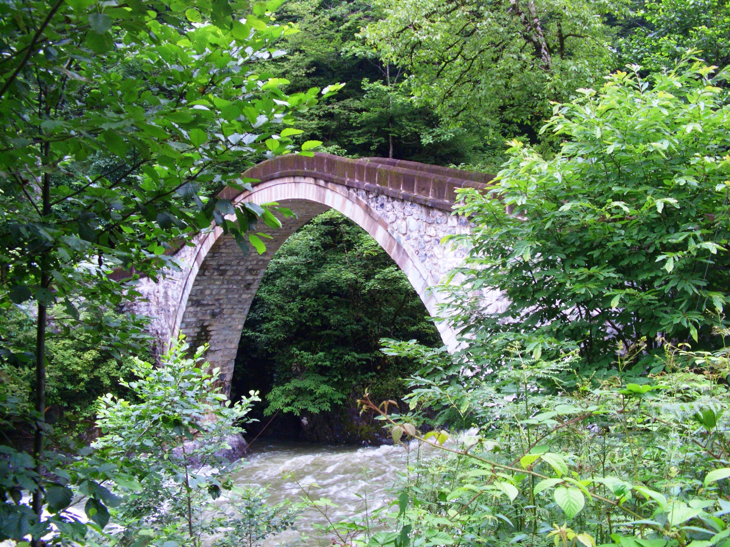 "Mikron Köprüsü" (Microne Bridge in Eng.), an arched stone bridge built in Ottoman Empire Era in 19th Century. It is located over Firtina Deresi in Çamlıhemşin District of Rize province in the Black Sea Region of Turkey.